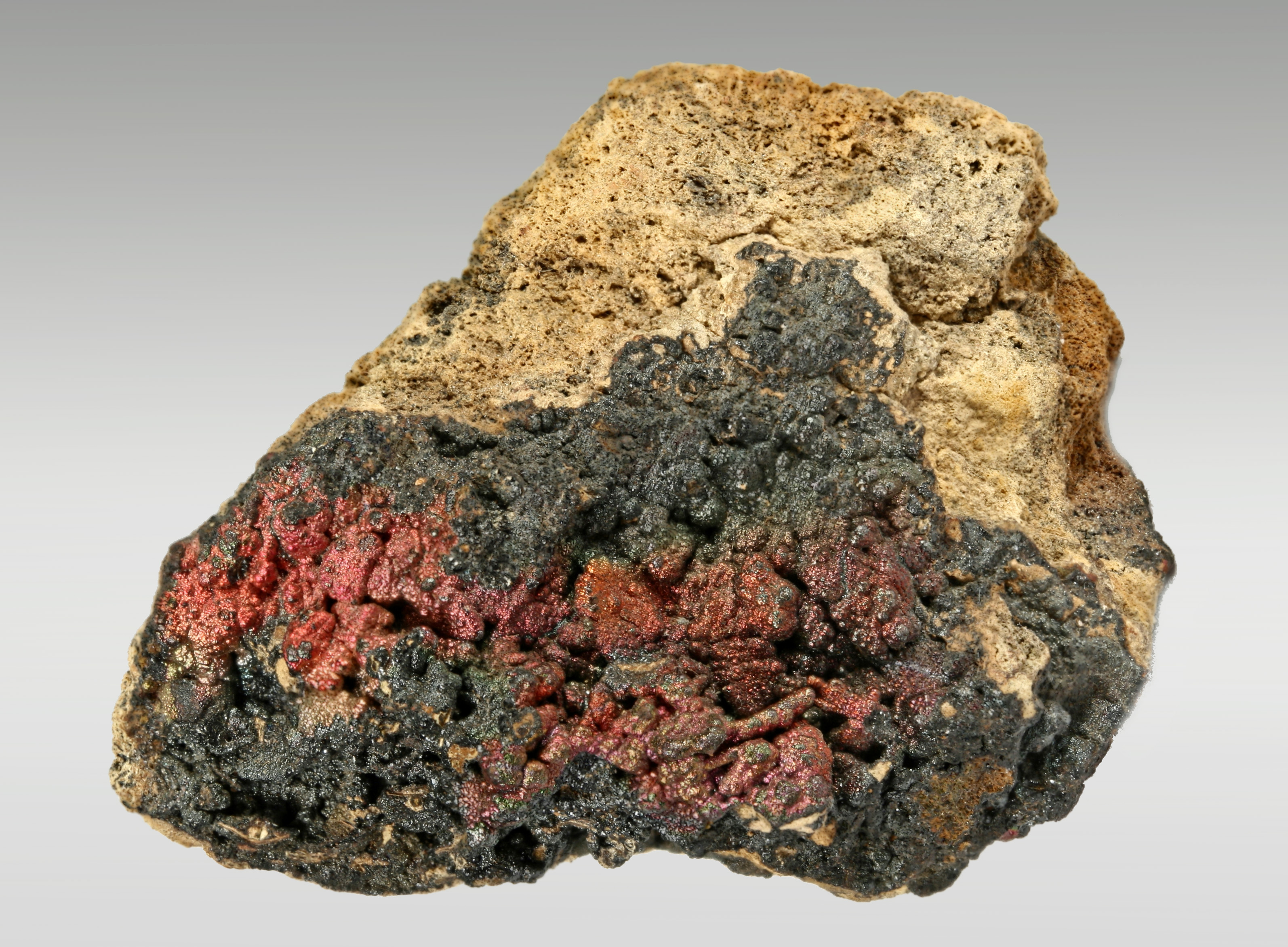 Wurtzite (Var: Voltzite) Locality: Sterling Mine, Sterling Hill, Ogdensburg, Franklin Mining District, Sussex Co., New Jersey, USA Dimensions: 4.5 cm x 3 cm x 3.5 cm Description: Gift from John Cianciulli. At the time I got this, John was curator of the Franklin Mineral Museum. It was attributed to Sterling Hill